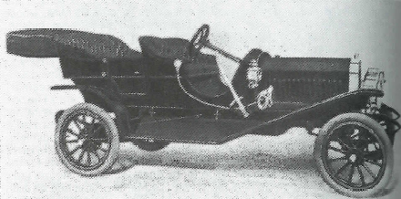 1909 Lambert automobile model 30 touring